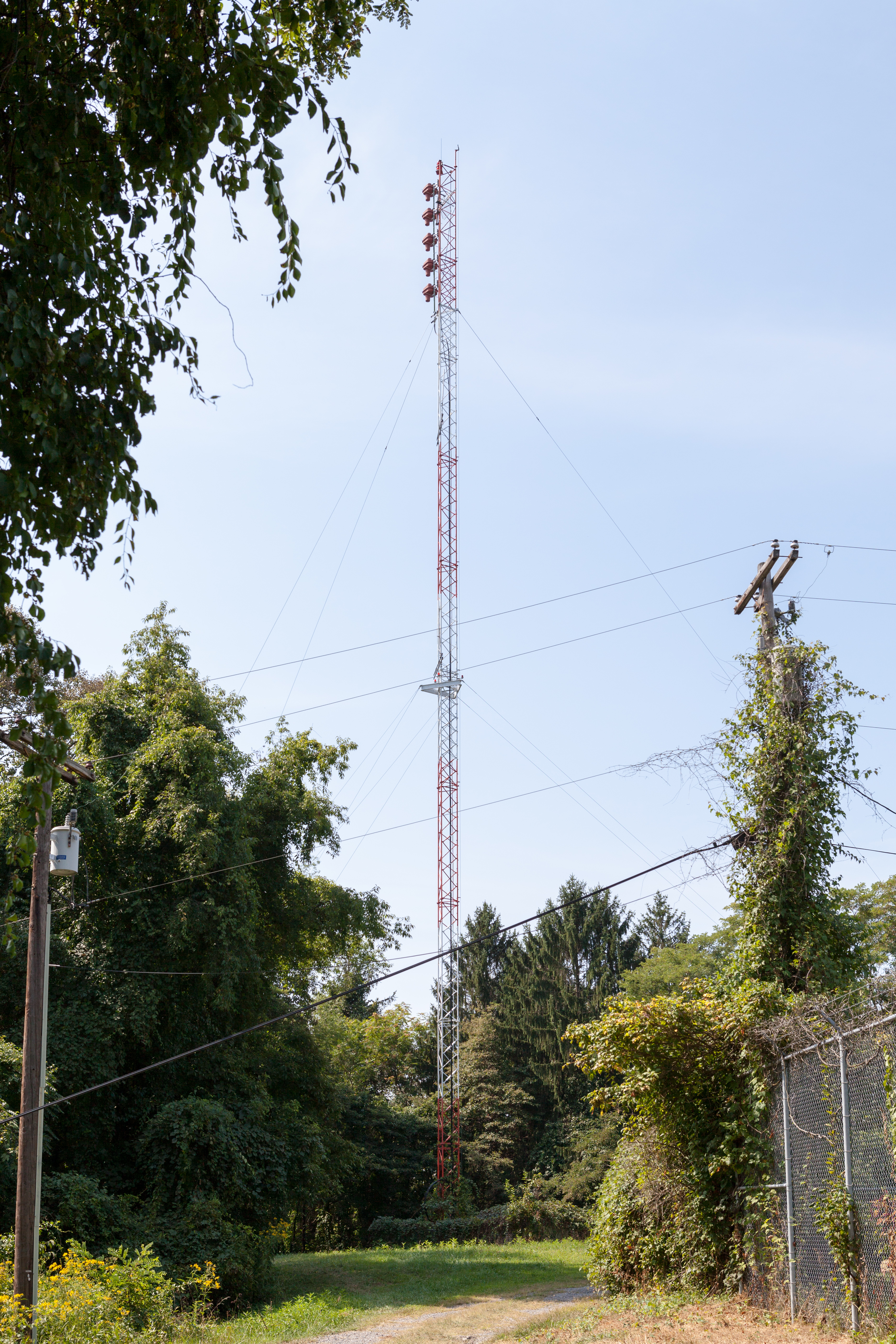 WWVU-FM antenna, located on Willey Street near the downtown campus of WVU, Morgantown.